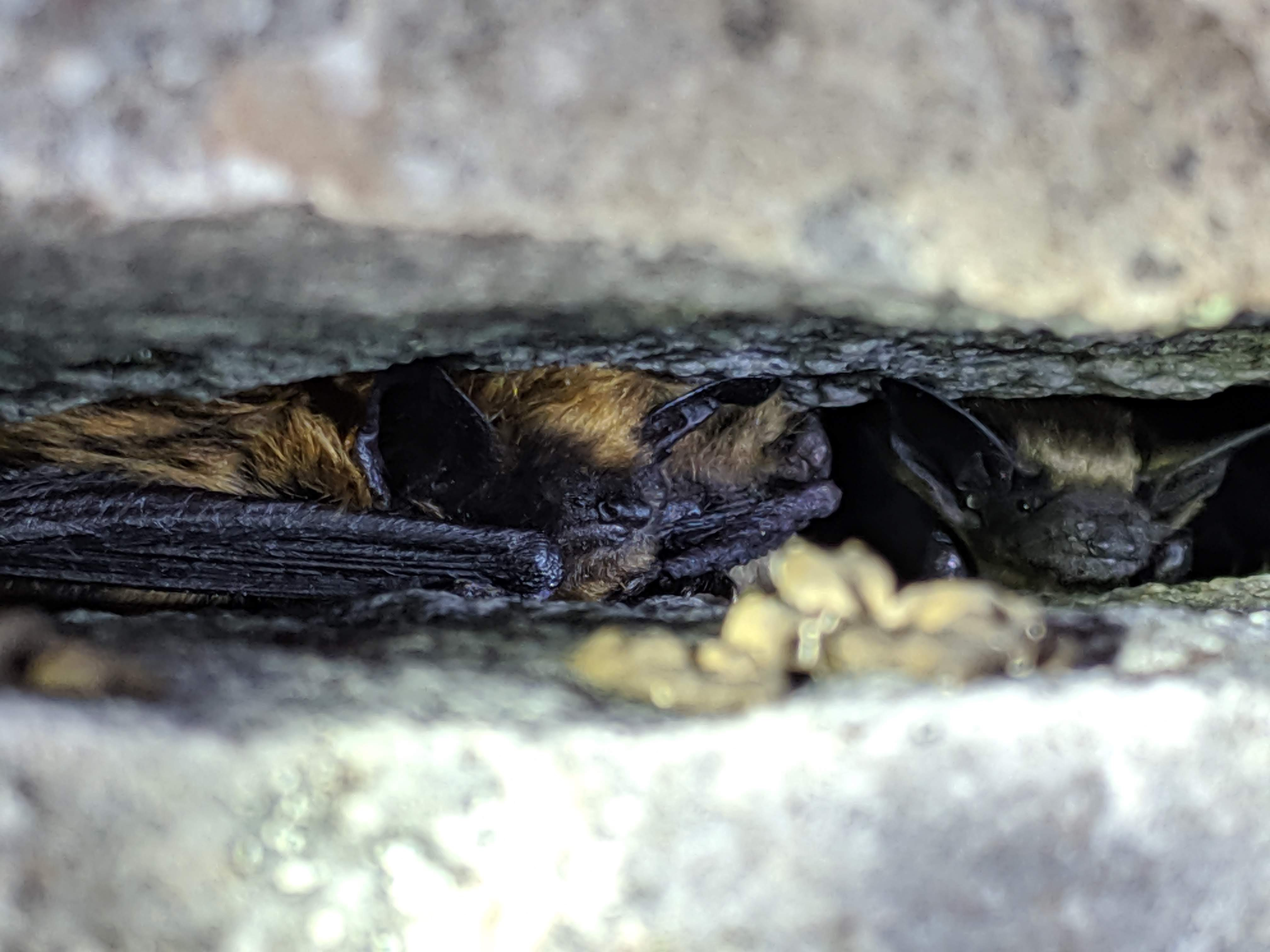 Members of a maternity colony congregating at the entrance to a rock crevice.